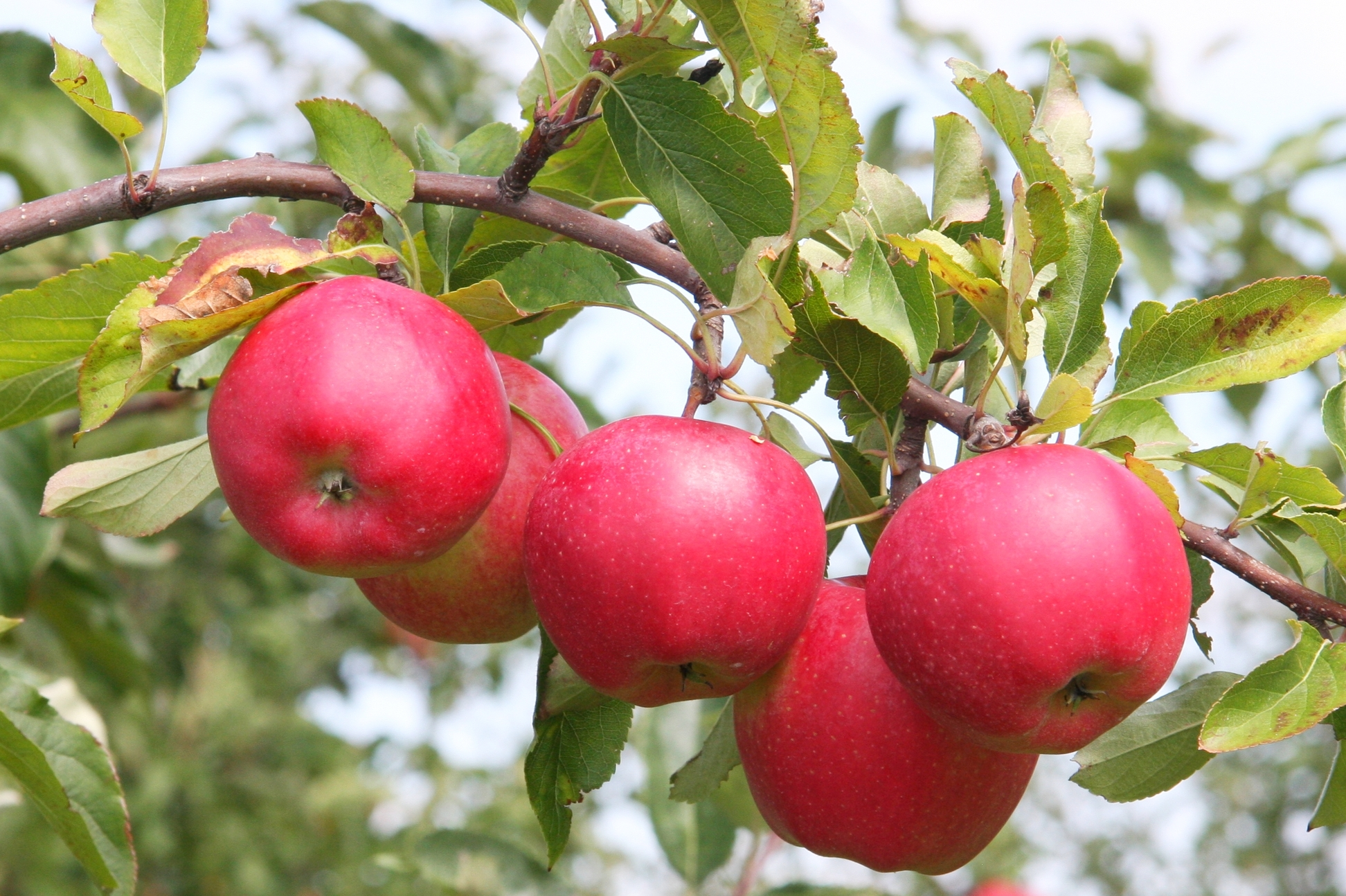 Fruits of Gala Must clone